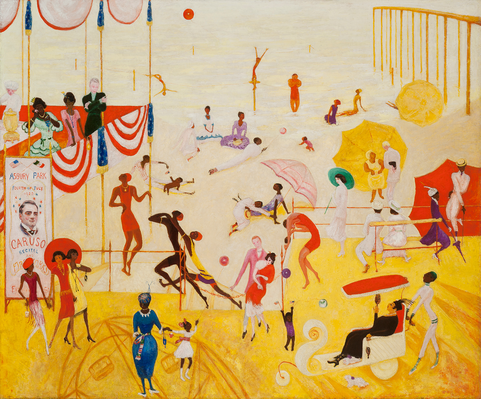 Asbury Park South. Painted in 1920 by Florine Stettheimer.